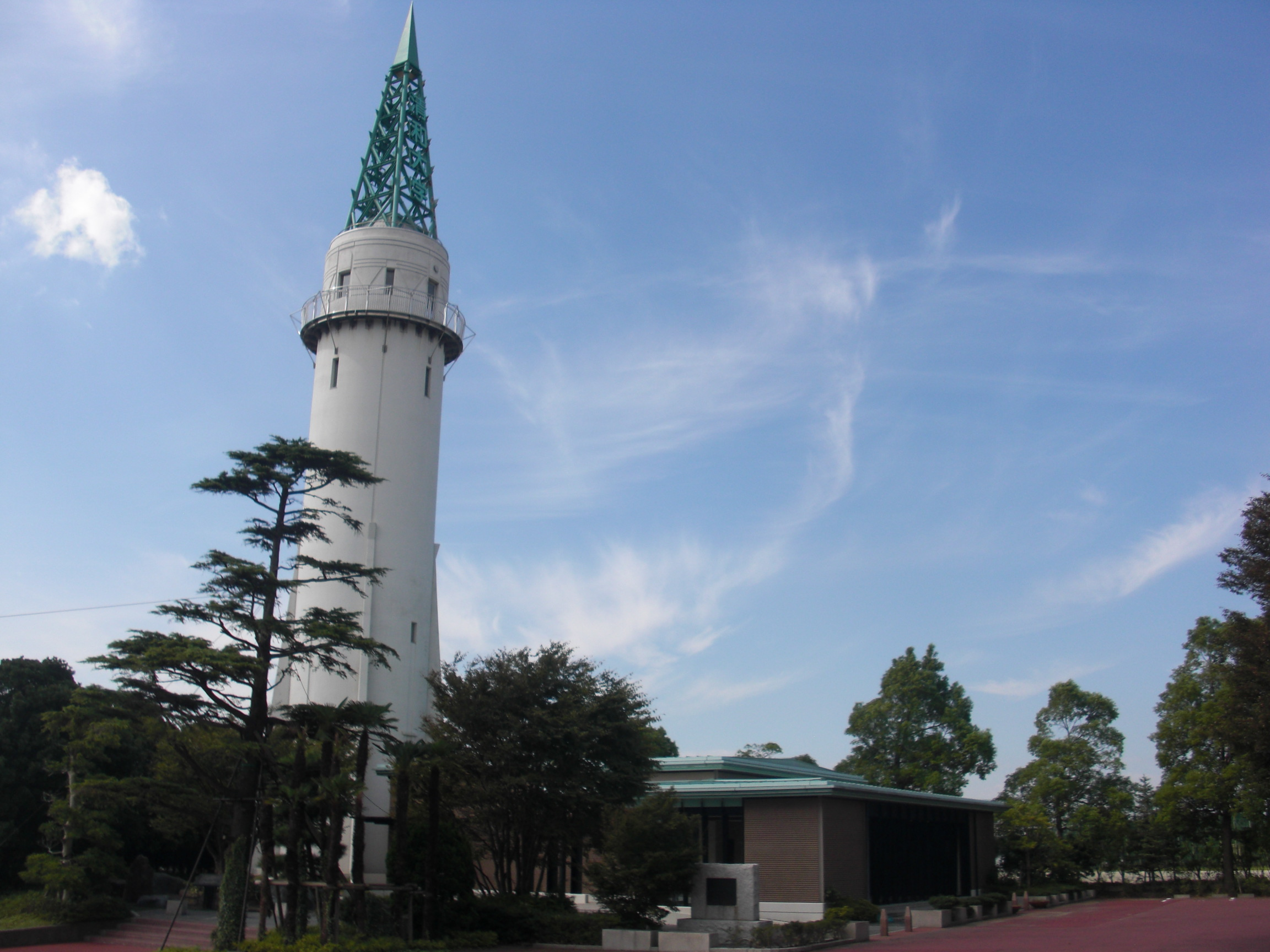 This is the tower in Seiwa University, Japan.